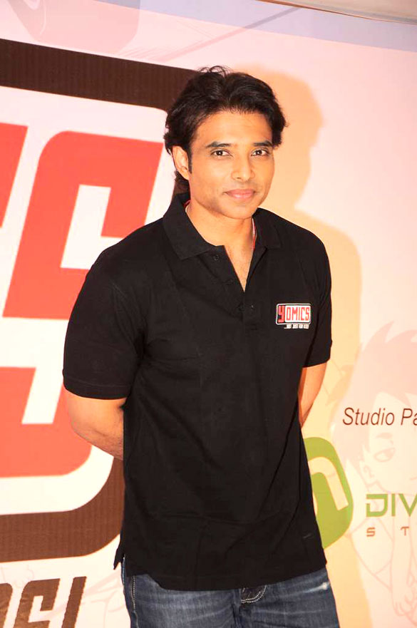 Uday Chopra launch 'YOMICS'